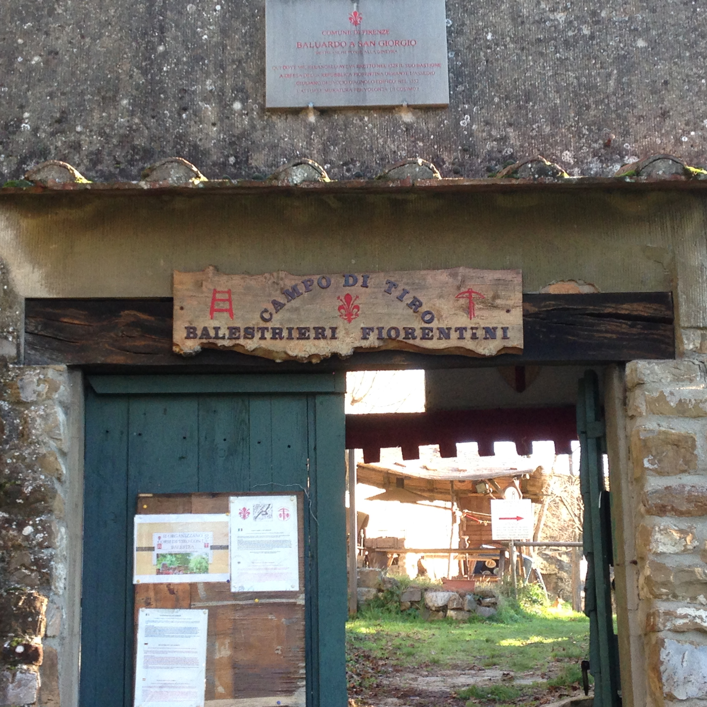 Via di Belvedere 2, The entry to the baluardo a San Giorgio, Florence